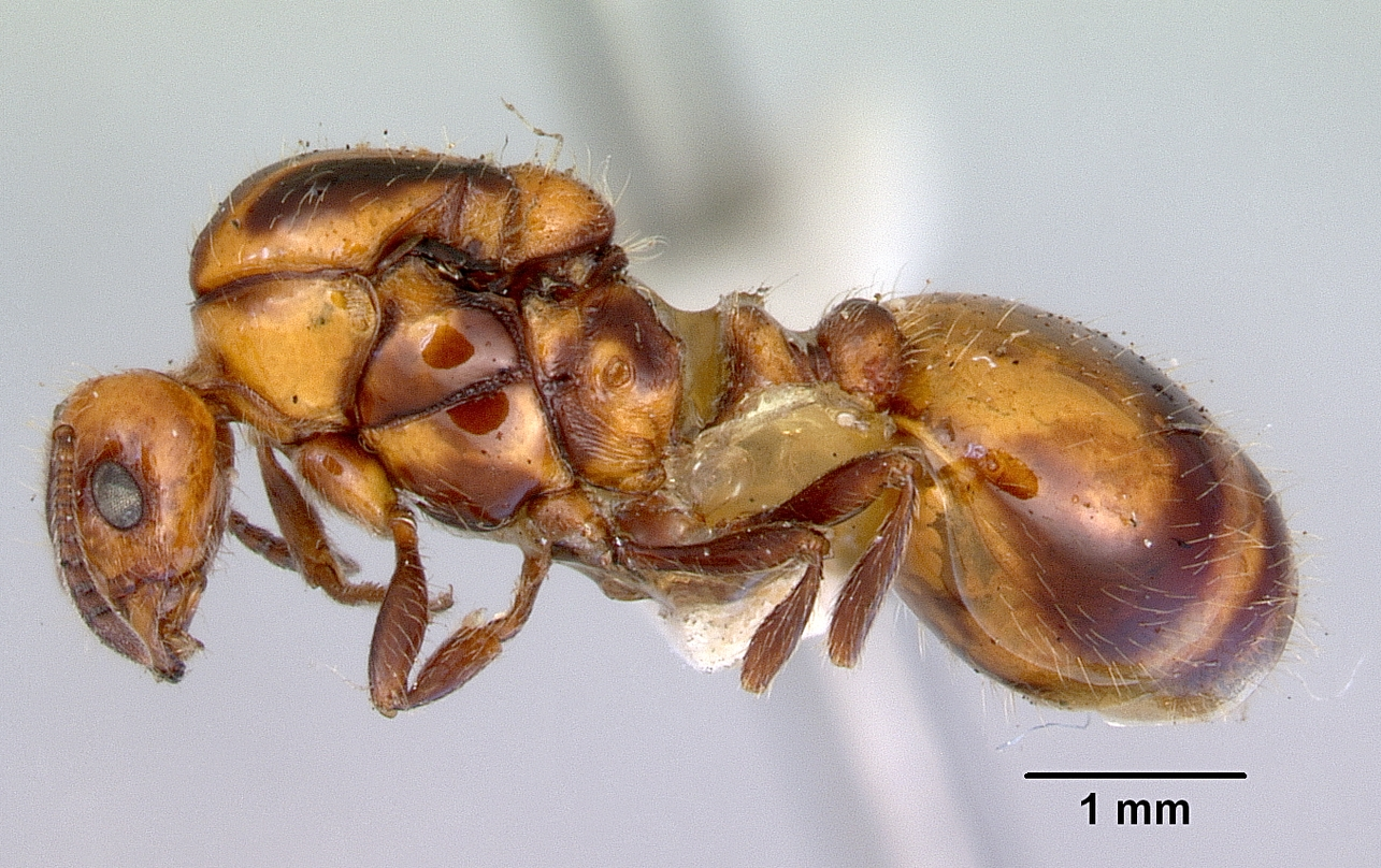 Profile view of ant Monomorium antarcticum specimen casent0172351.